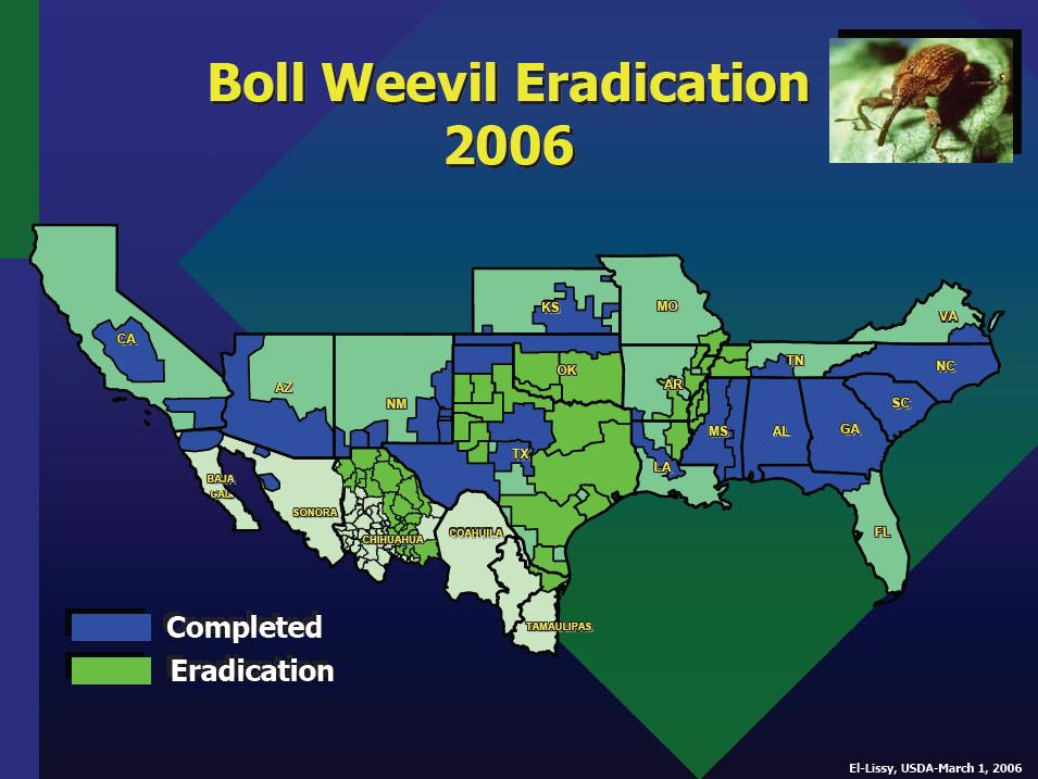 Boll weevil eradication map downloaded from the USDA site